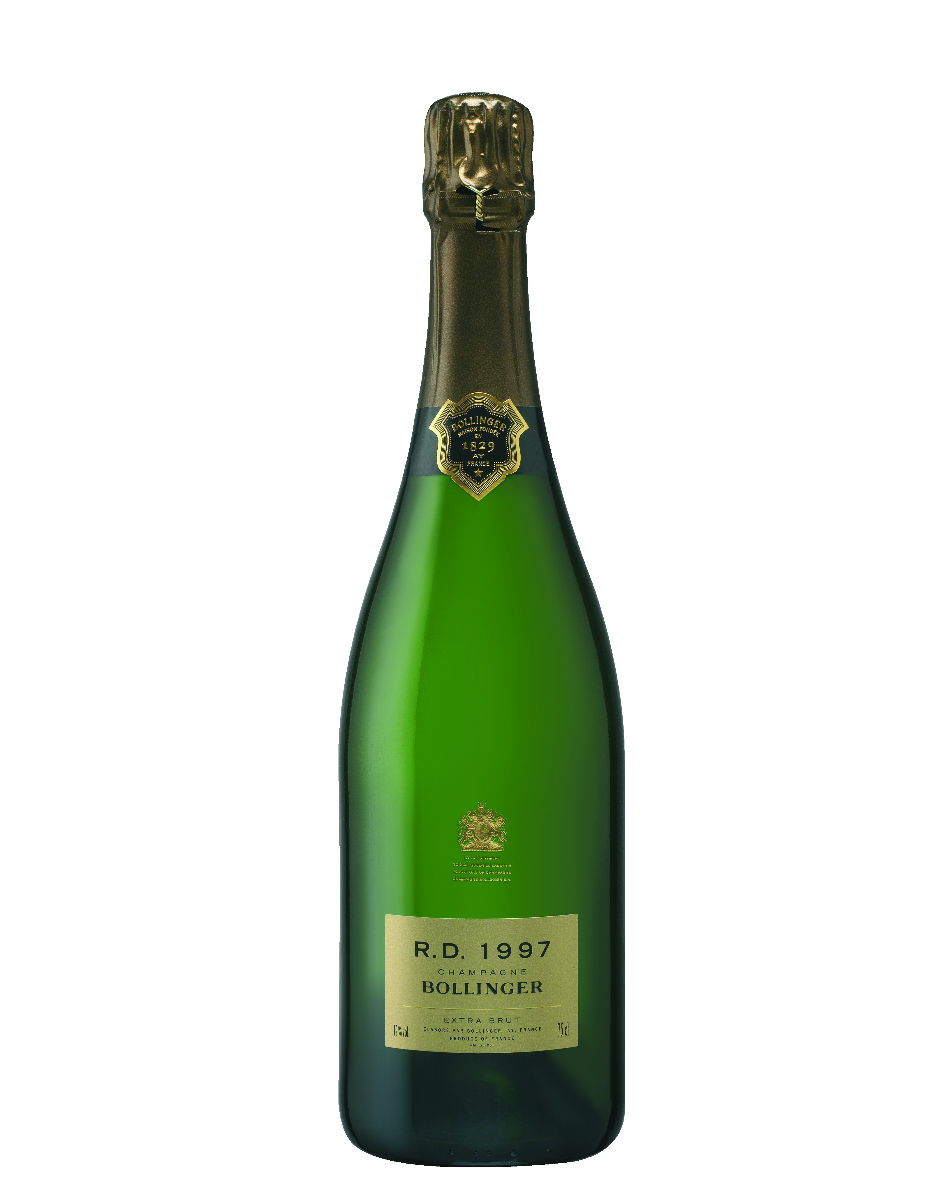 A bottle of Bollinger RD 1997 champagne.